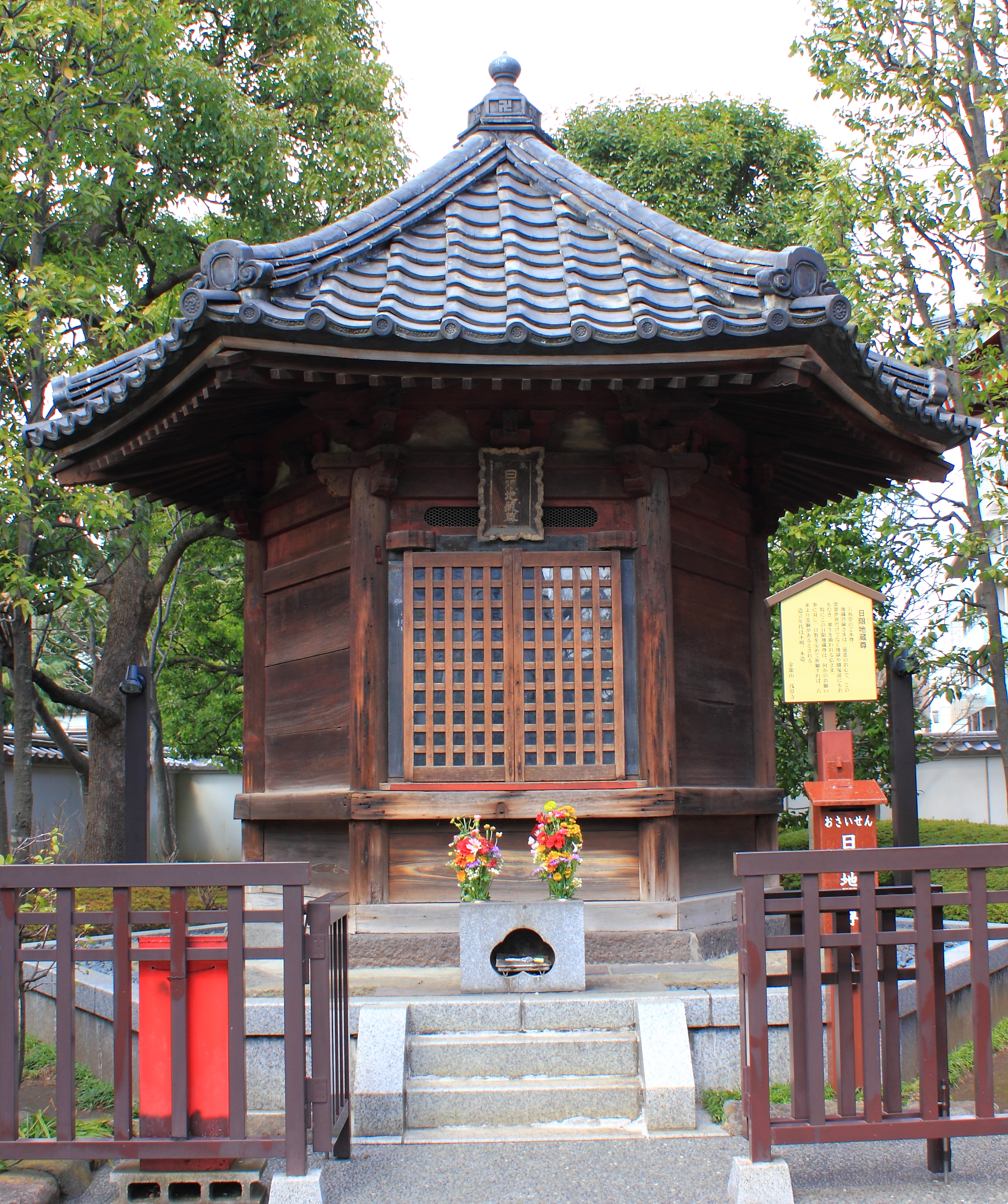 Rokkakudō Hall at Sensō-ji Temple